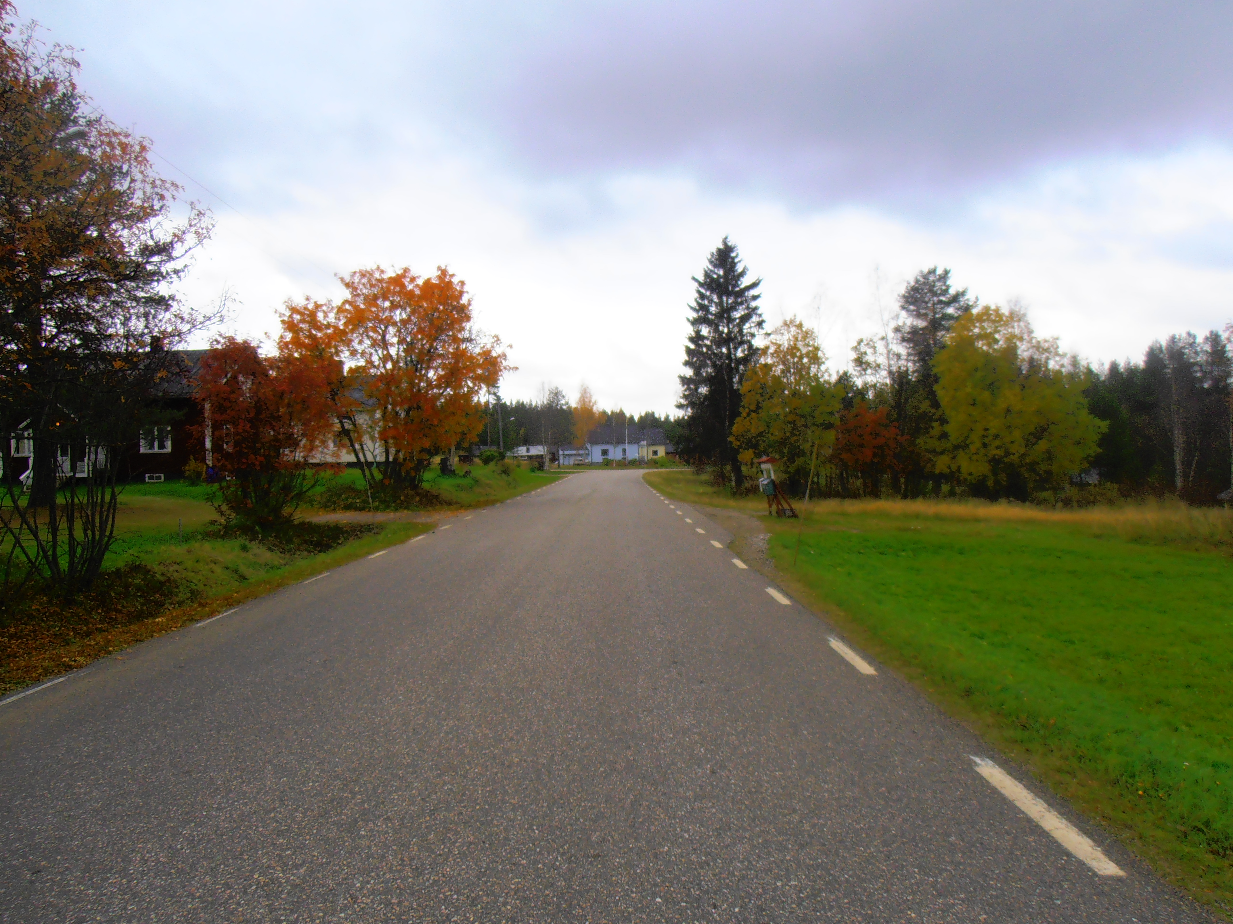 Lahdenpää, Pajala